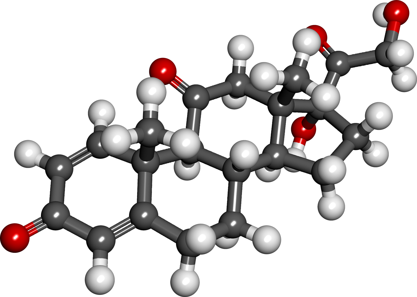 Ball-and-stick model of the immunosuppressant drug prednisone